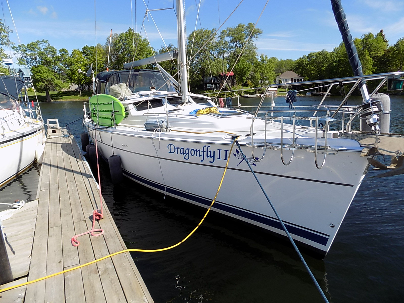 A Hunter 44 sailboat named Dragonfly II.